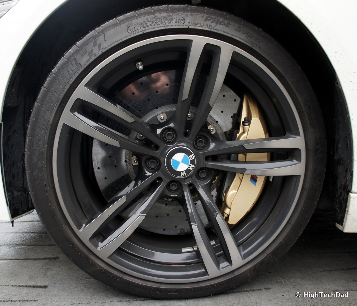 Photos of the 2015 BMW M3 Sedan. More reviews can be found at: or